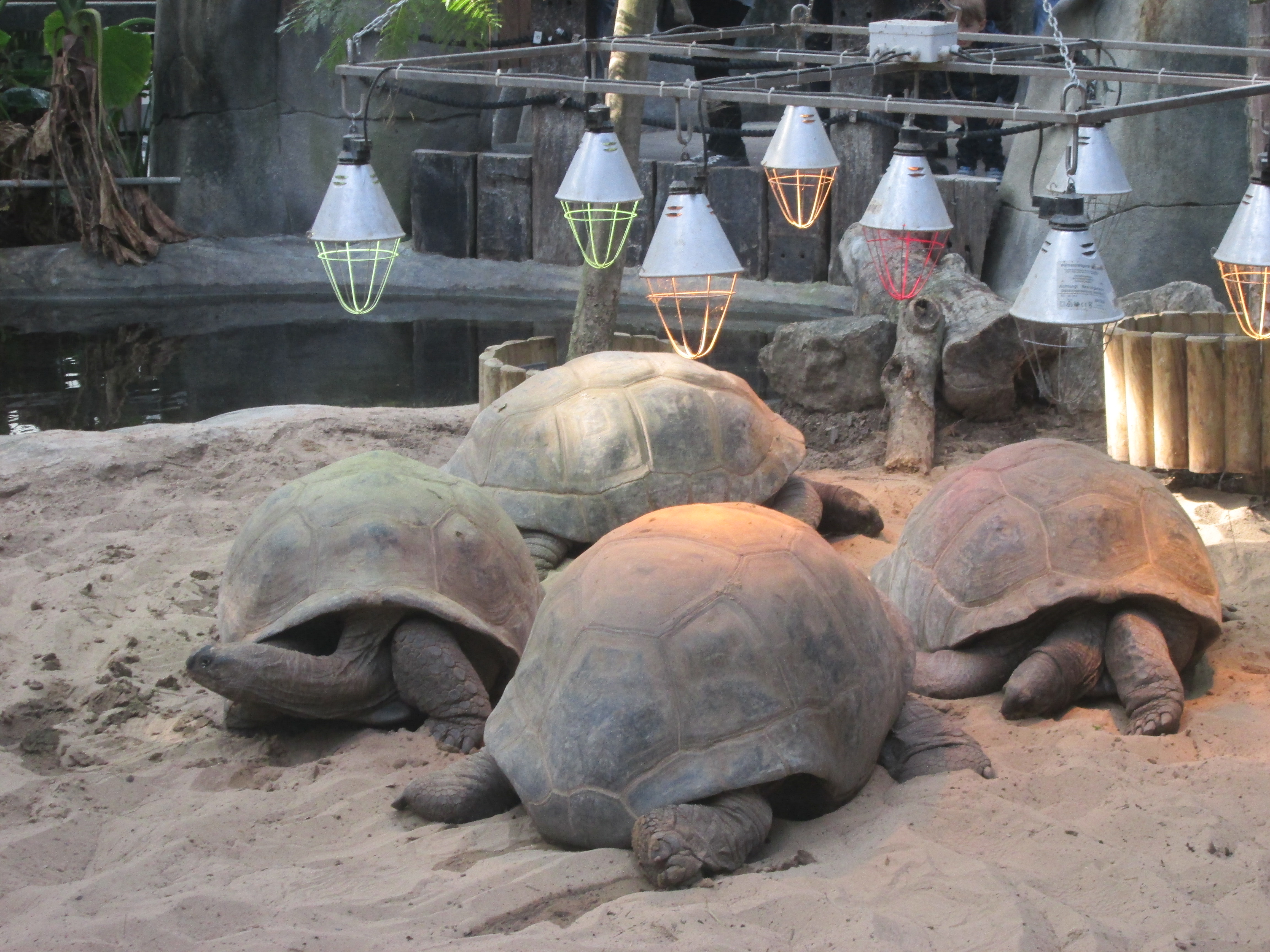 Dipsochelys dussumieri at Parco Cornelle ITALY